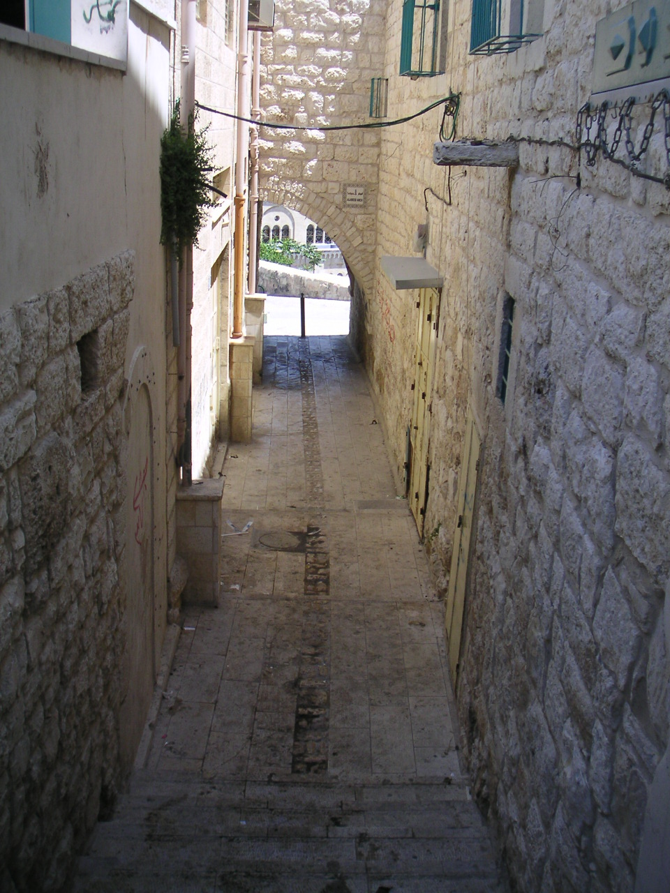 Photo: Soman